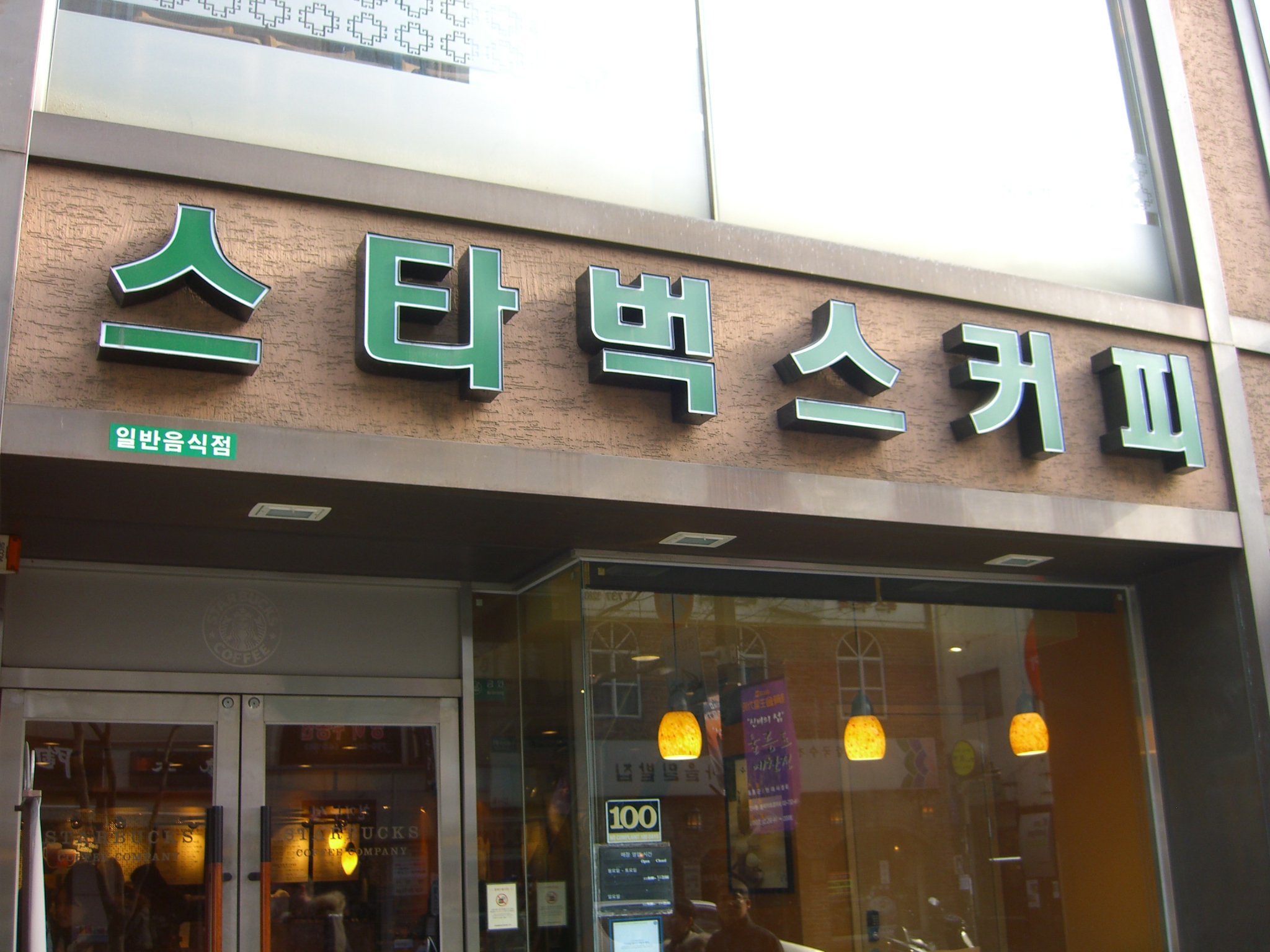 A starbucks in South Korea, unique in that the sign is not in english